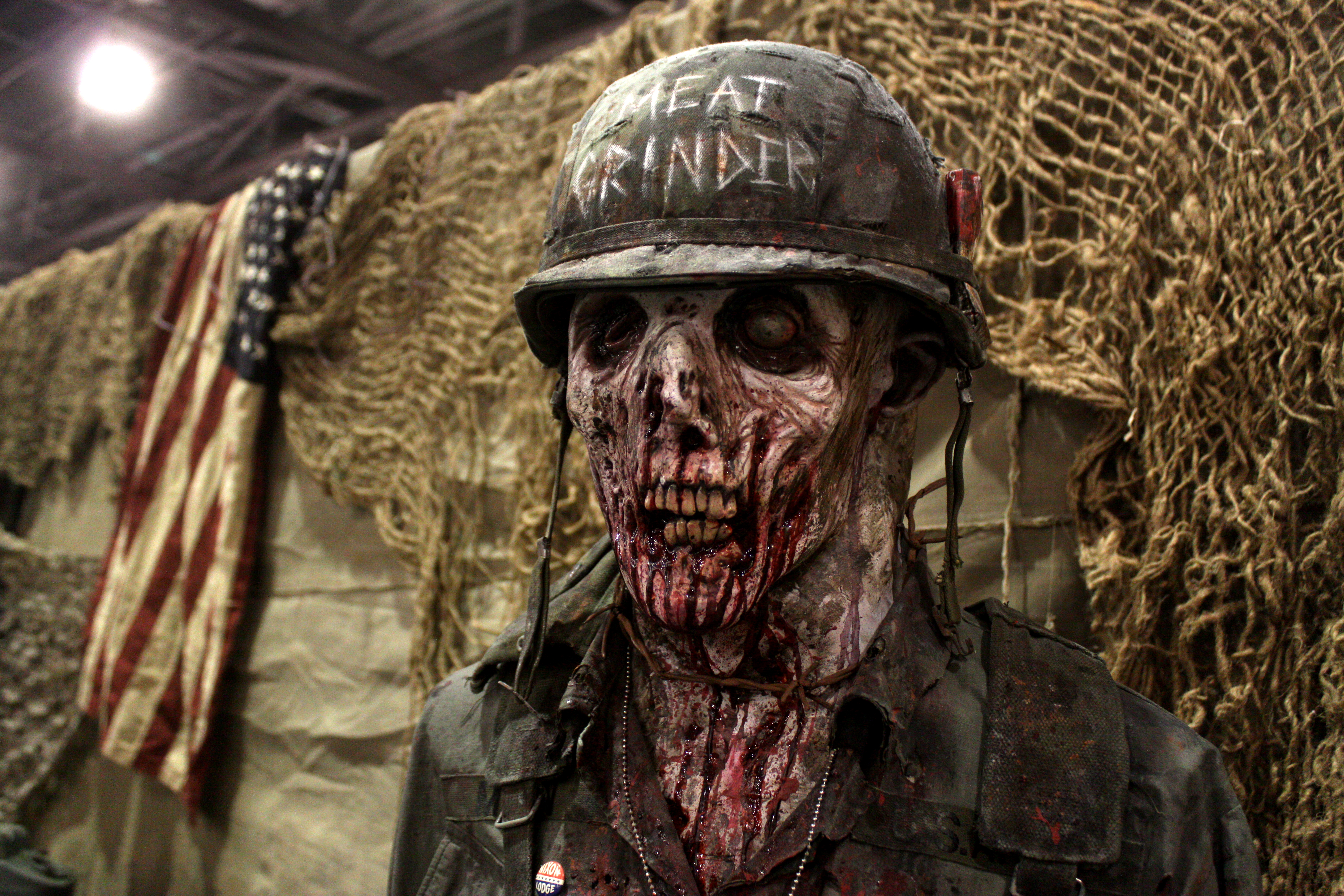 "Meat Grinder' statue at the Phoenix Comicon in Phoenix, Arizona.